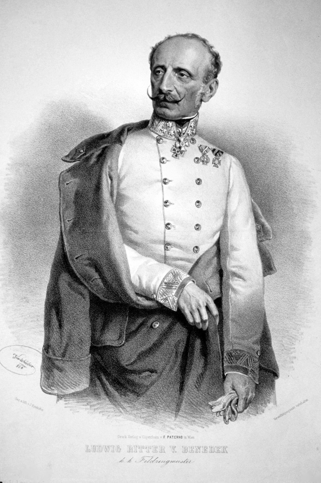 Ludwig von Benedek (1804-1881), k. k. Feldzeugmeister, Lithographie von Josef Kriehuber, 1866